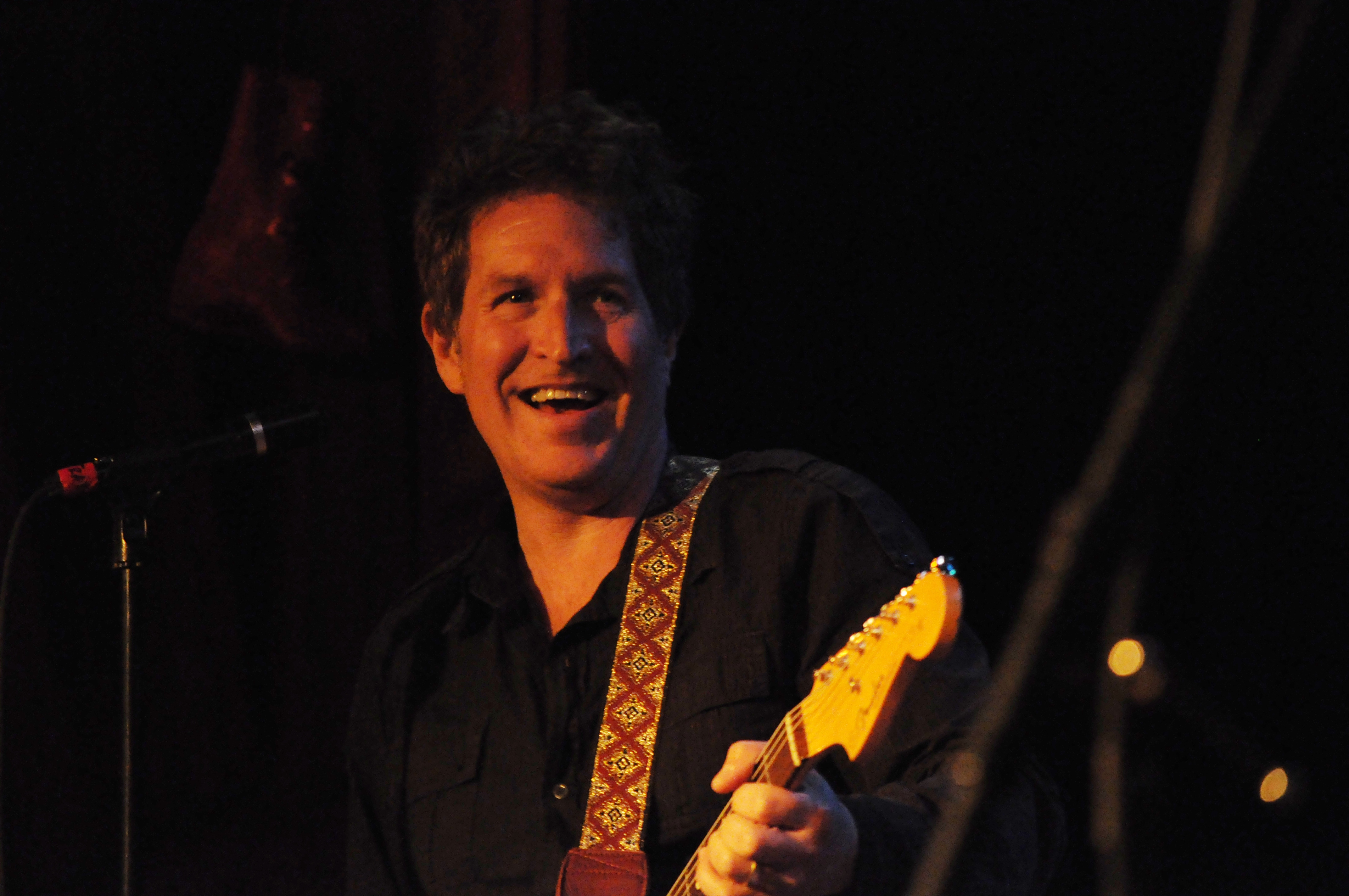 Steve Wynn performing with The Baseball Project at the Tractor, Ballard, Seattle, Washington.